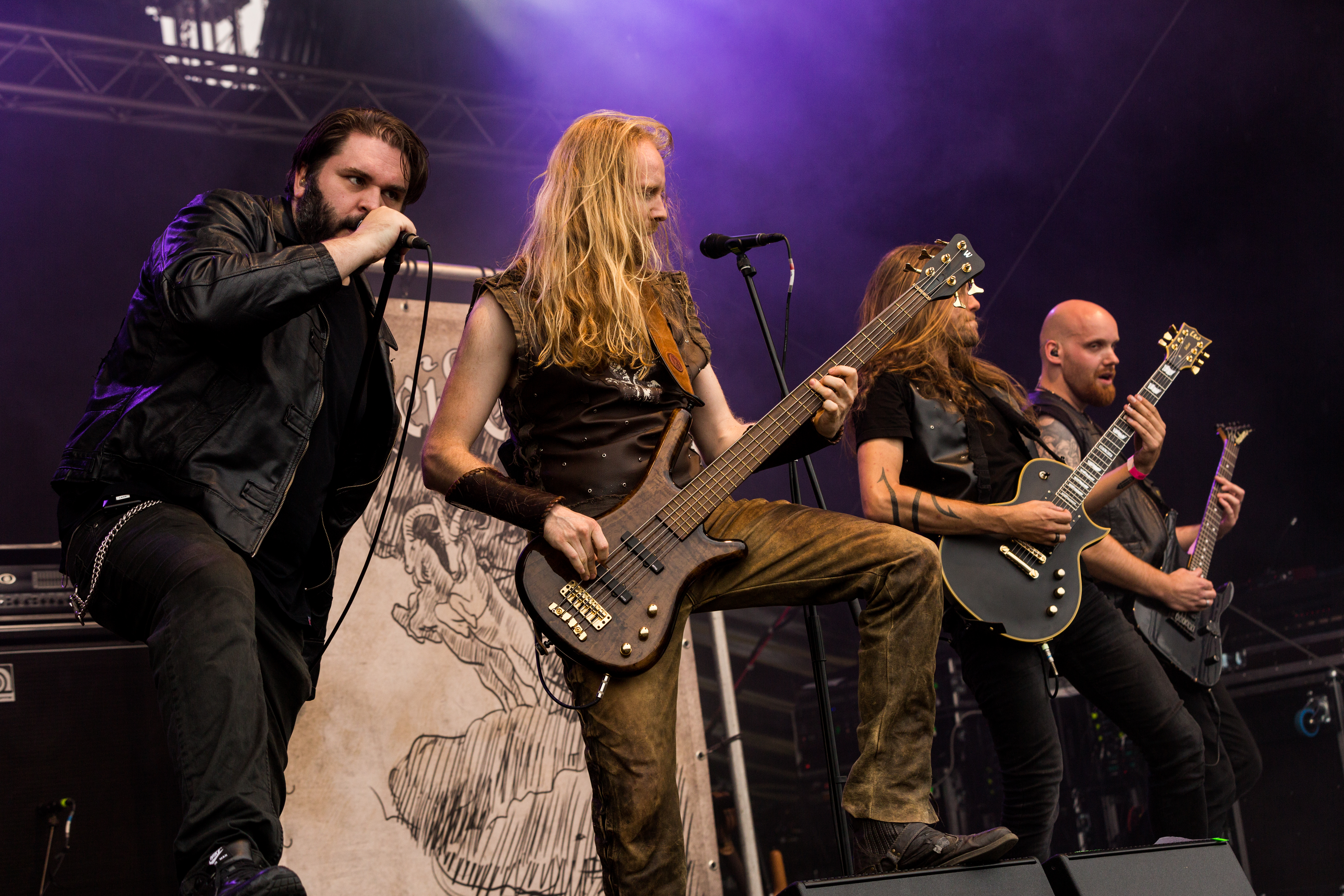 The Dutch folk an pagan metal band Heidevolk at the Metal Frenzy 2017 in Gardelegen/Germany.